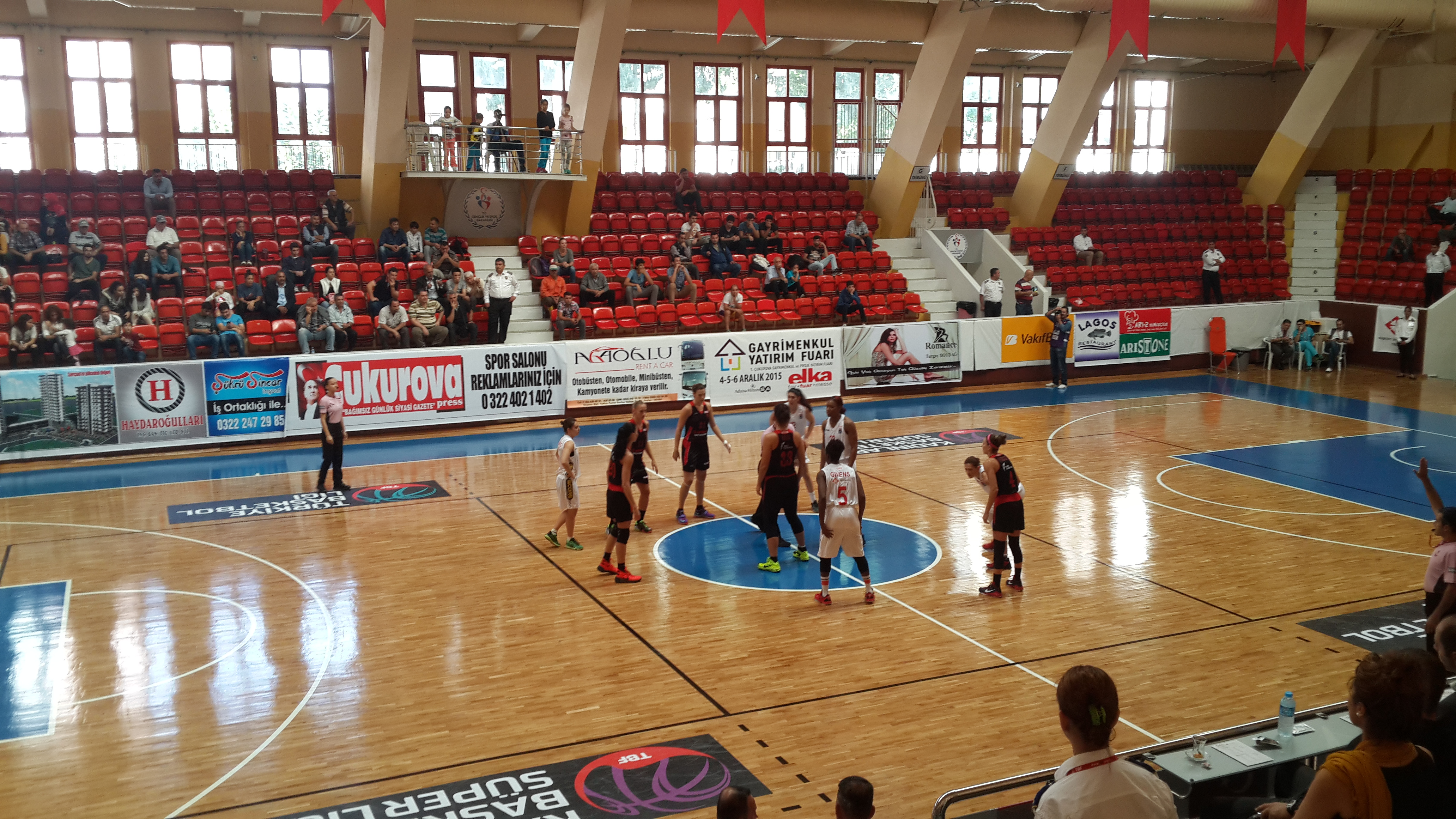 Botaş in action